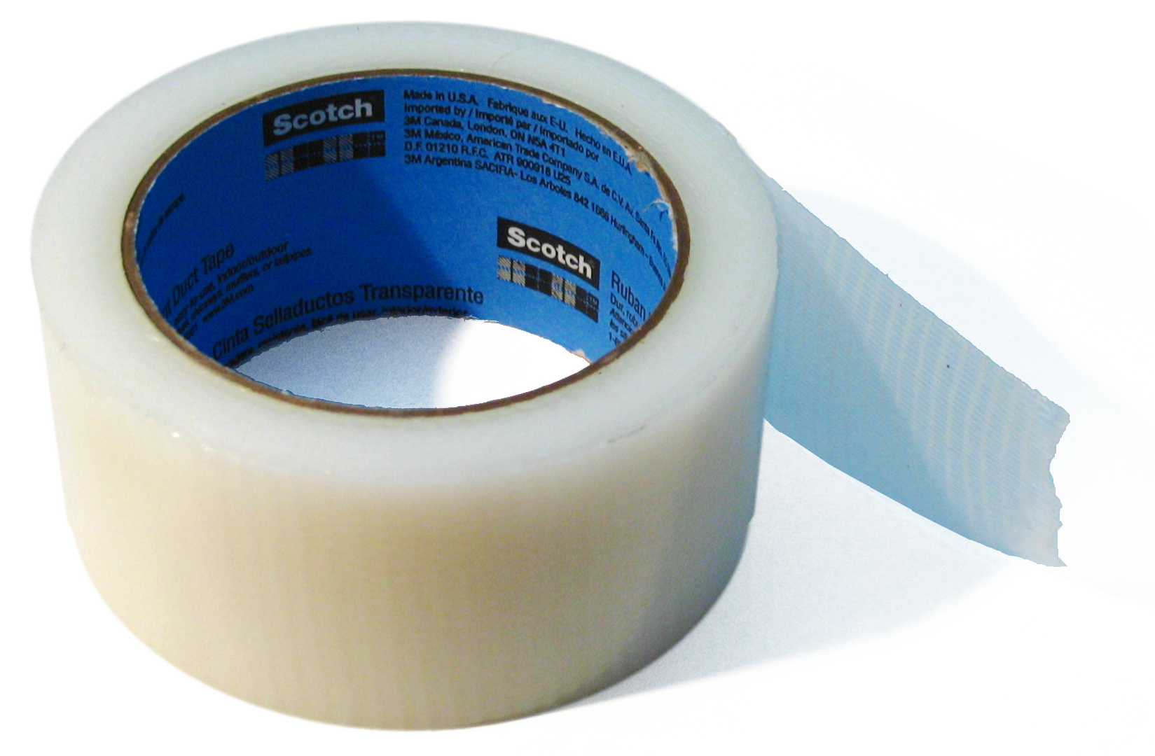 A roll of transparent scotch duct tape.